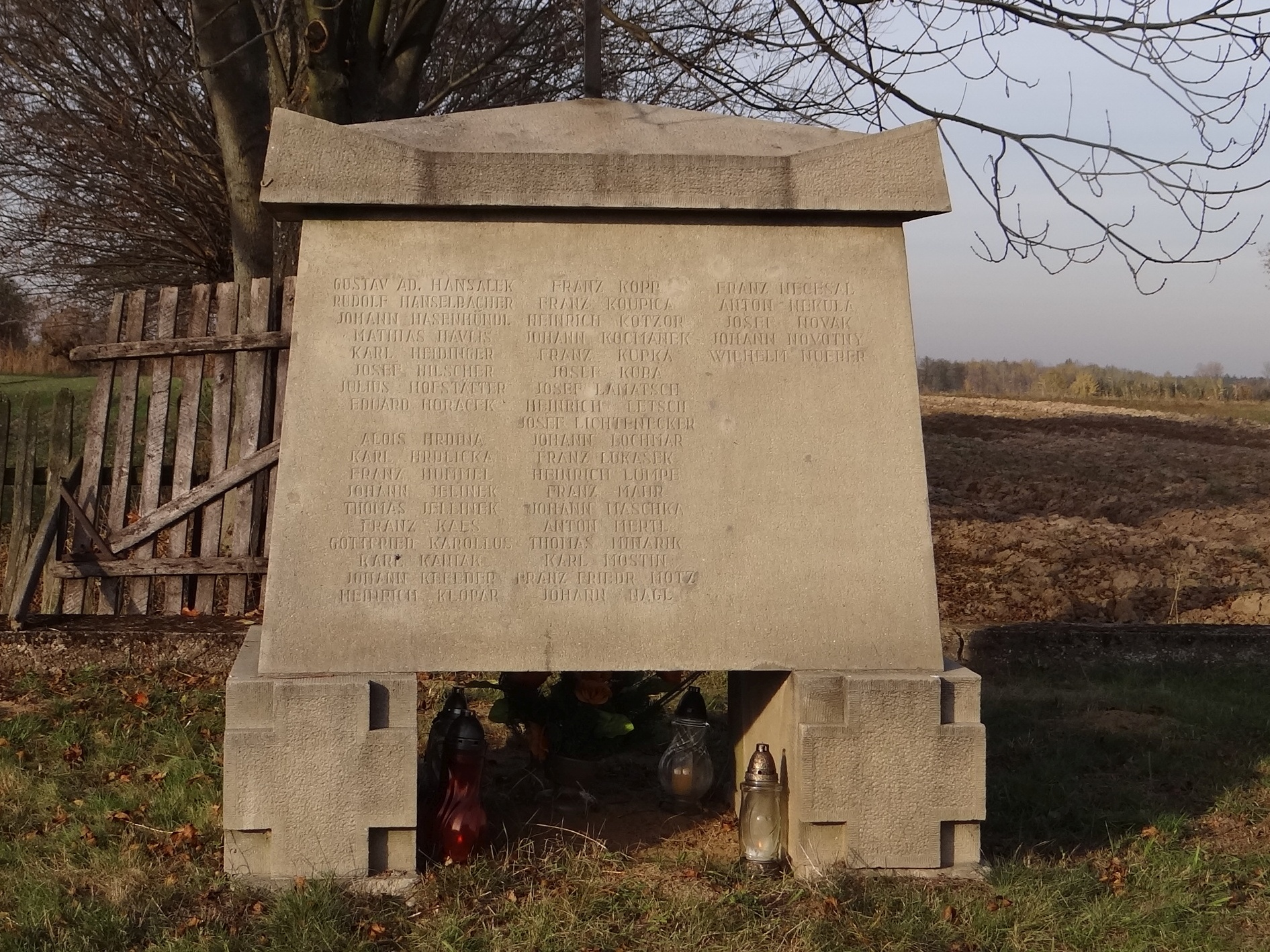 World War I Cemetery nr 245 in Radgoszcz-Zadębie